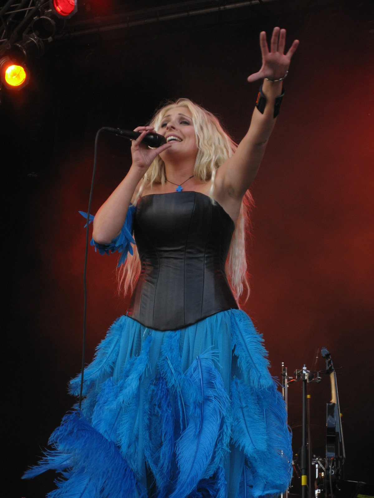 Eivør Pálsdóttir at the "G! Festival" (Gøta, Faroe Islands)